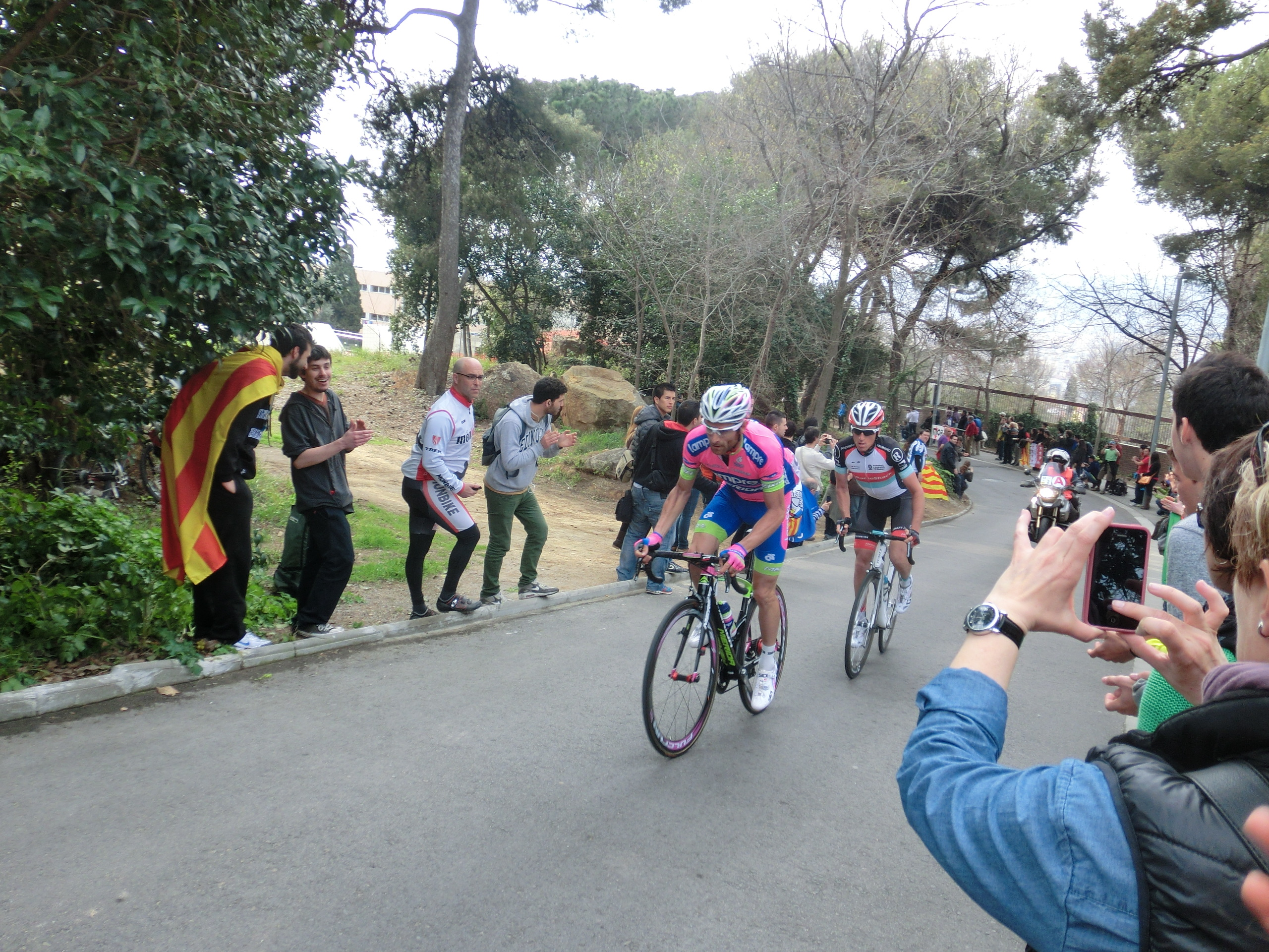 Volta Catalunya 2013: Michele Scarponi and Robert Kišerlovski (chase) in Montjuïc (Barcelona, Catalonia, Catalan Countries) during the 7th stage.